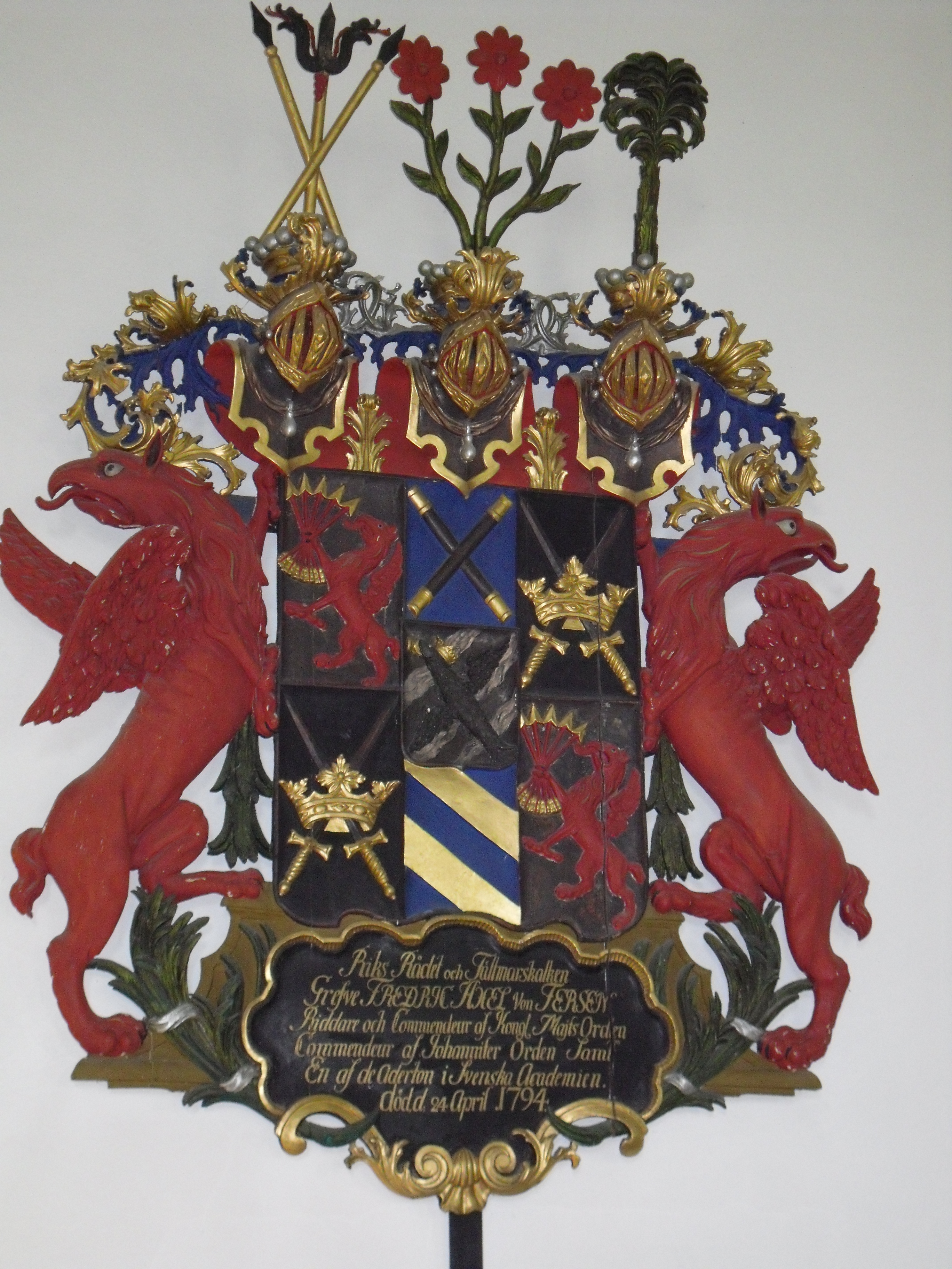 The von Fersen coat of arms, Ljung Church, Östergötland, Sweden.